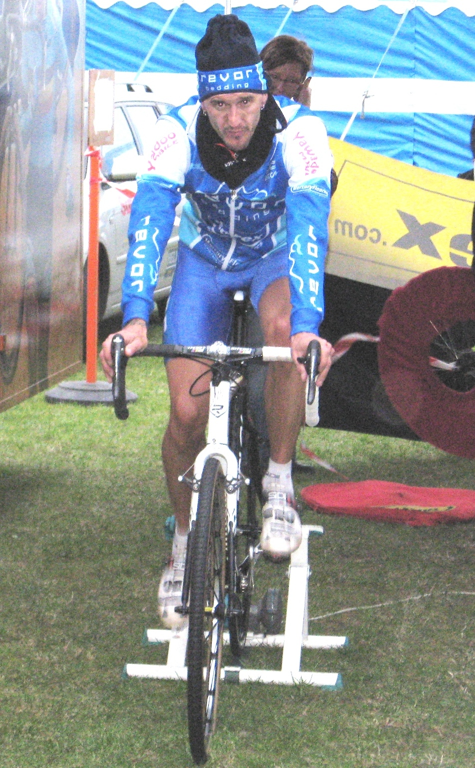 Ben Berden after the cyclo-cross race in Zonhoven, Limburg, Belgium